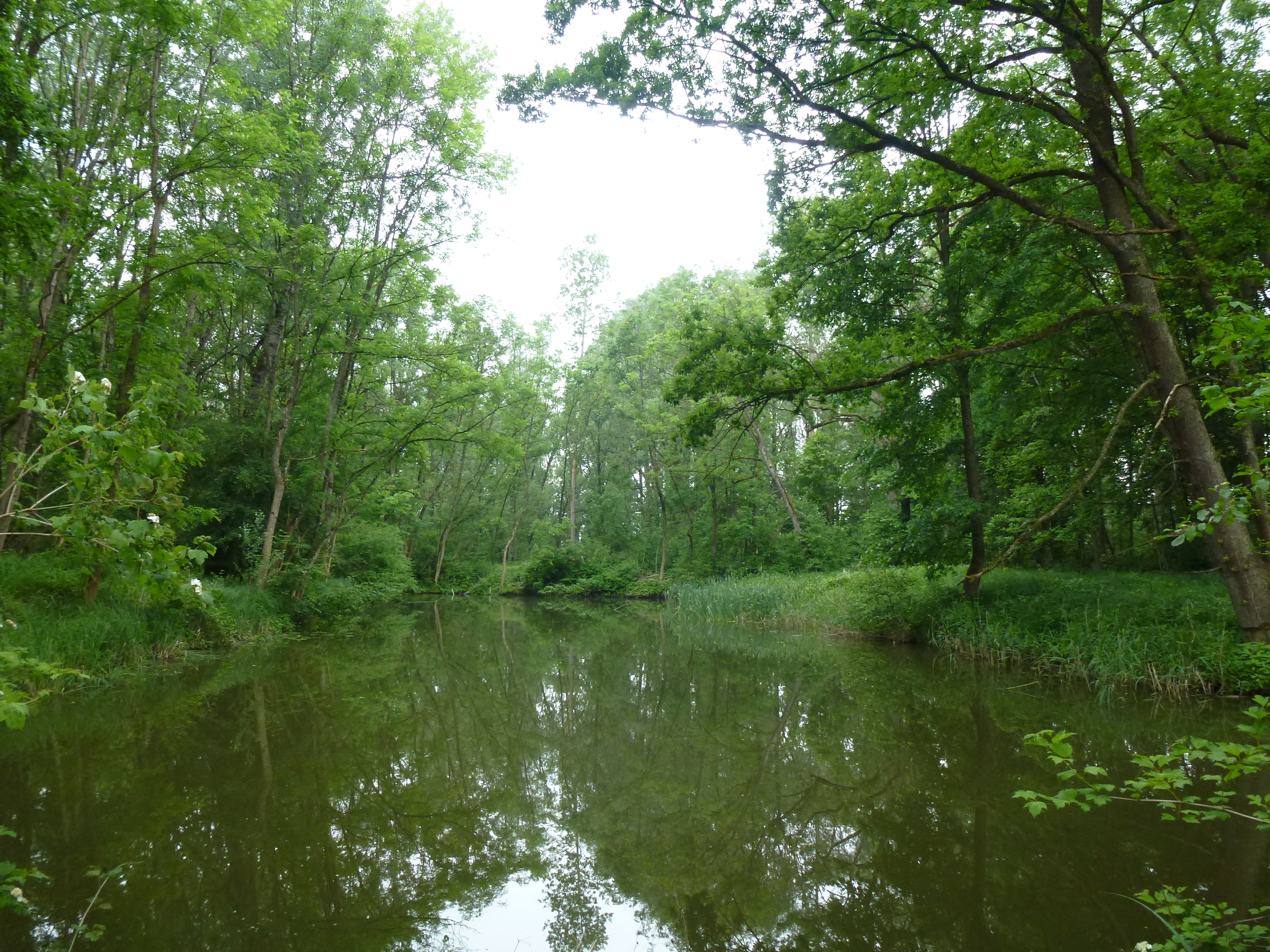 A backwater pond of the Danube in the nature resvere "Neugeschüttwörth" in western Bavaria near the village Gremheim